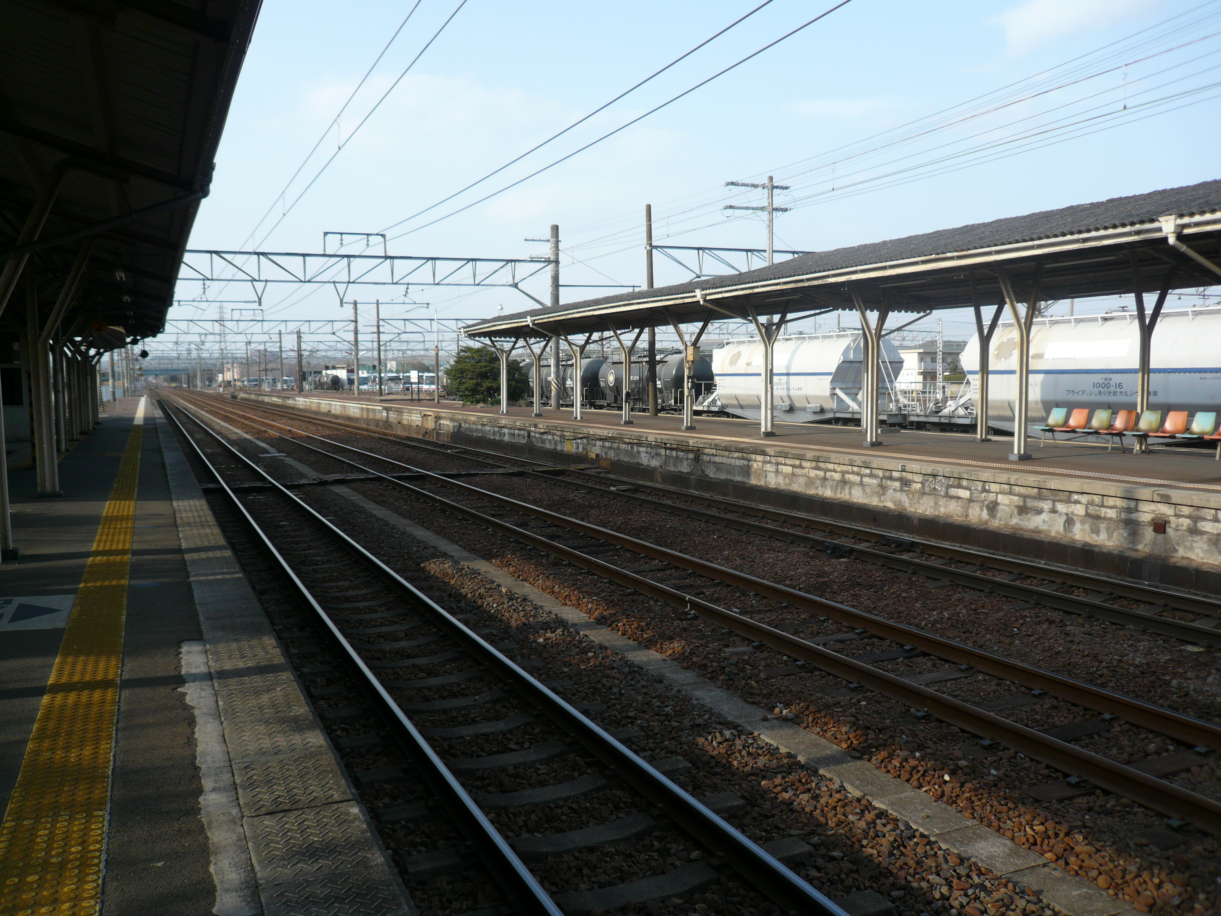 JR Central of Tomida Station.